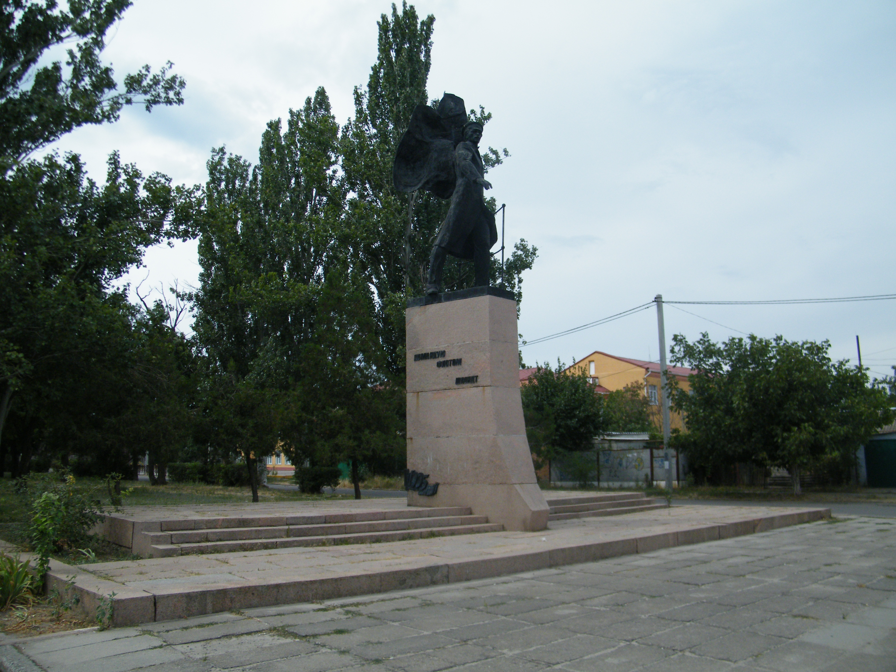 Monument of Pyotr Schmidt in Ochakiv